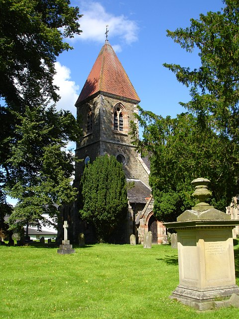 St Beuno's Church, Berriew The church dates from 1802, though it underwent a major phase of rebuilding and restoration in 1875. For a more detailed description